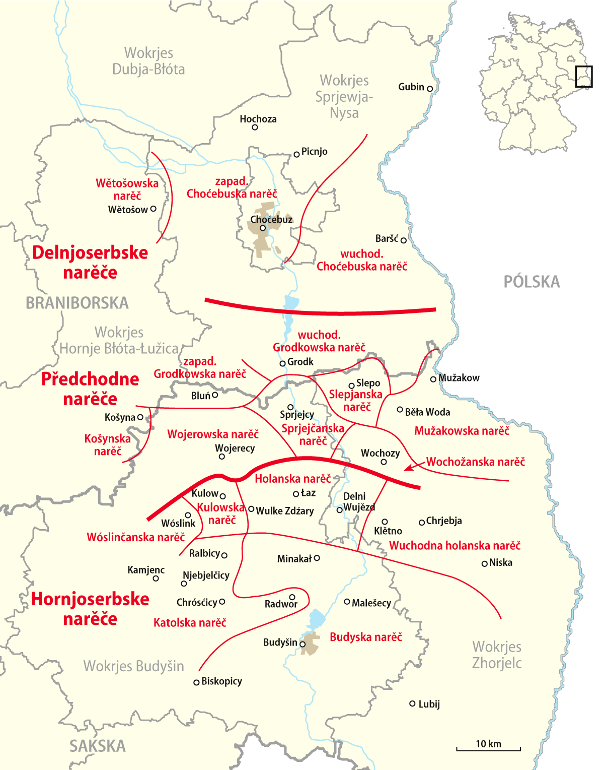 Map of the Sorbian dialects, Upper Sorbian version